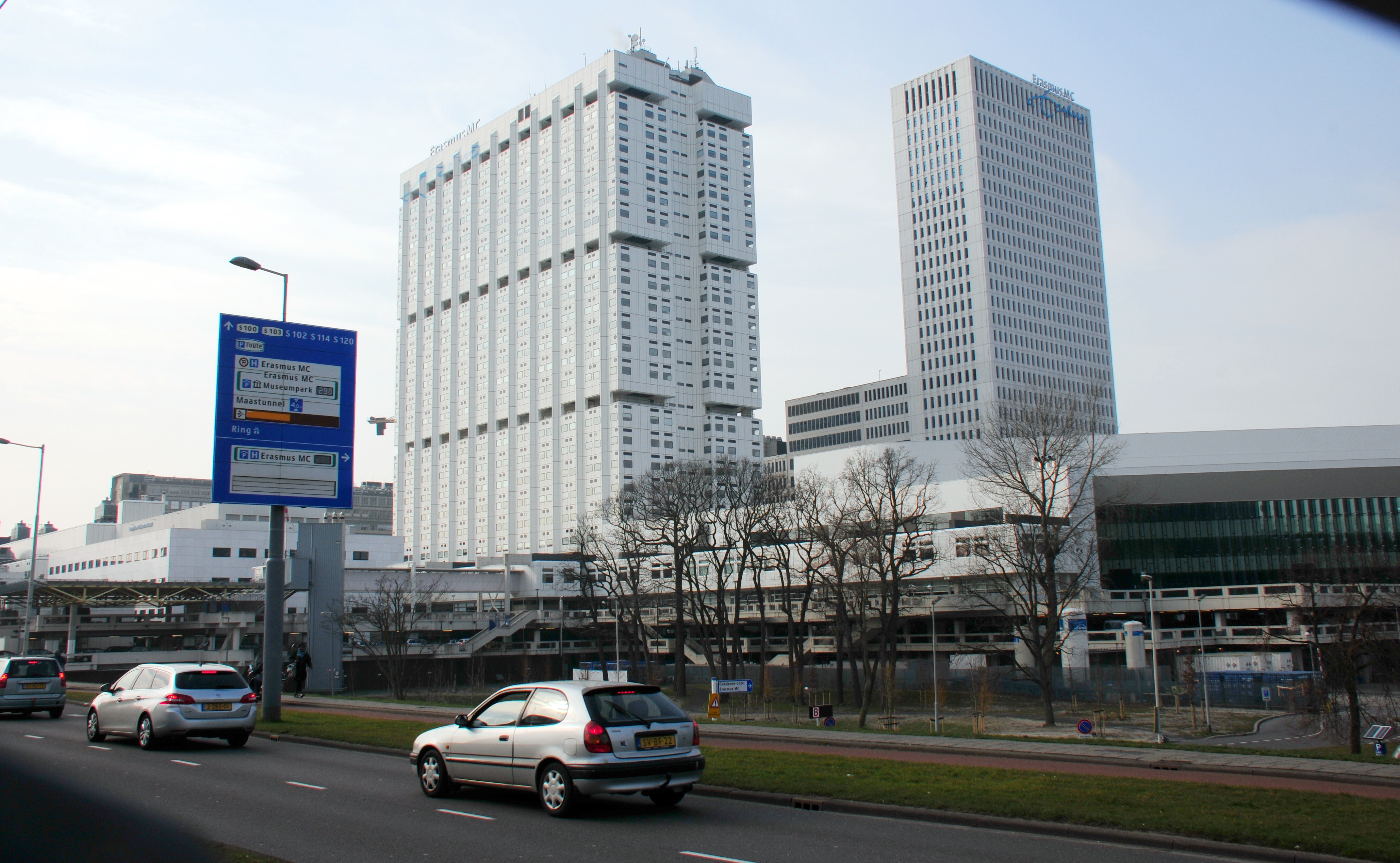 Erasmus Medical Centre with the new built tower at the rightside at 17 March 2015